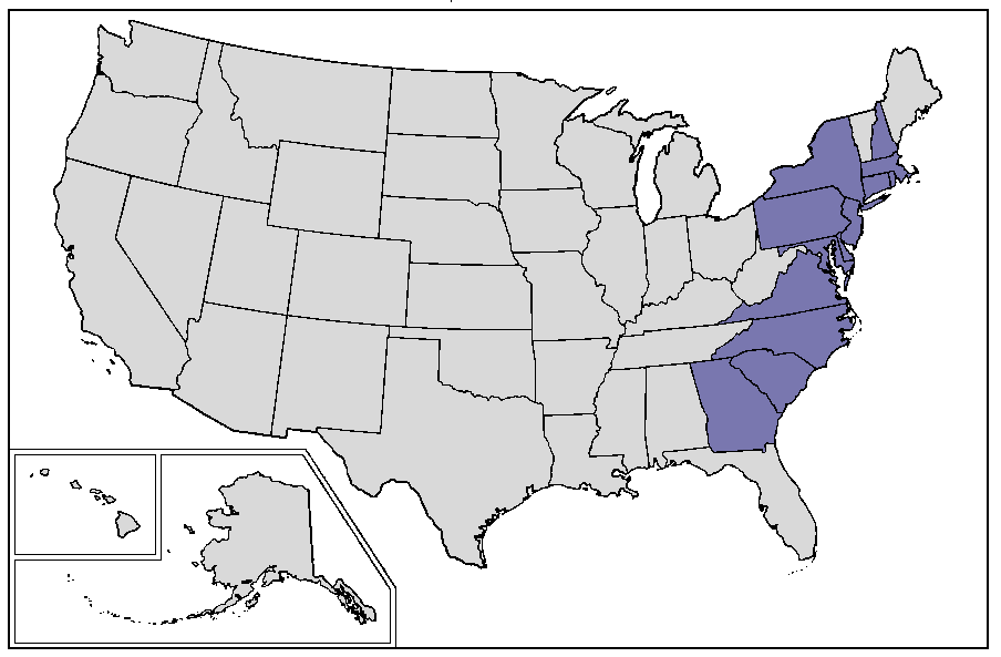 Map of current US states that are direct successor states of the original Thirteen Colonies that declared independence from Great Britain in 1776. Indirect successor states (Maine, Vermont, Tennessee, West Virginia), the District of Columbia and states that acceded to the union after the American Revolutionary War are not included.